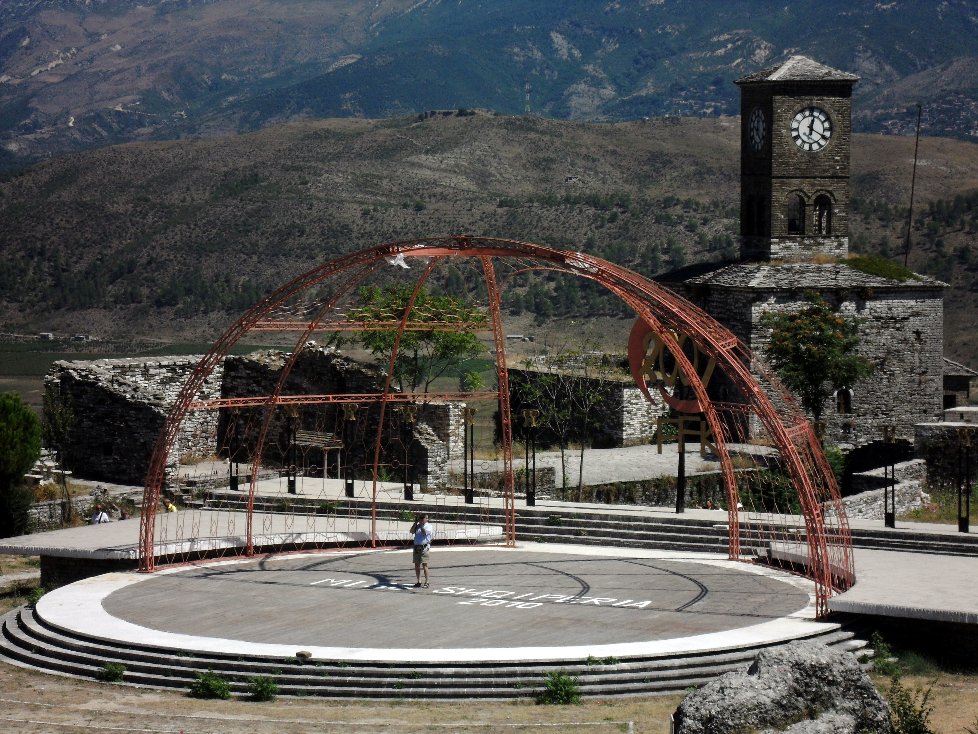 Castle in Gjirokastër